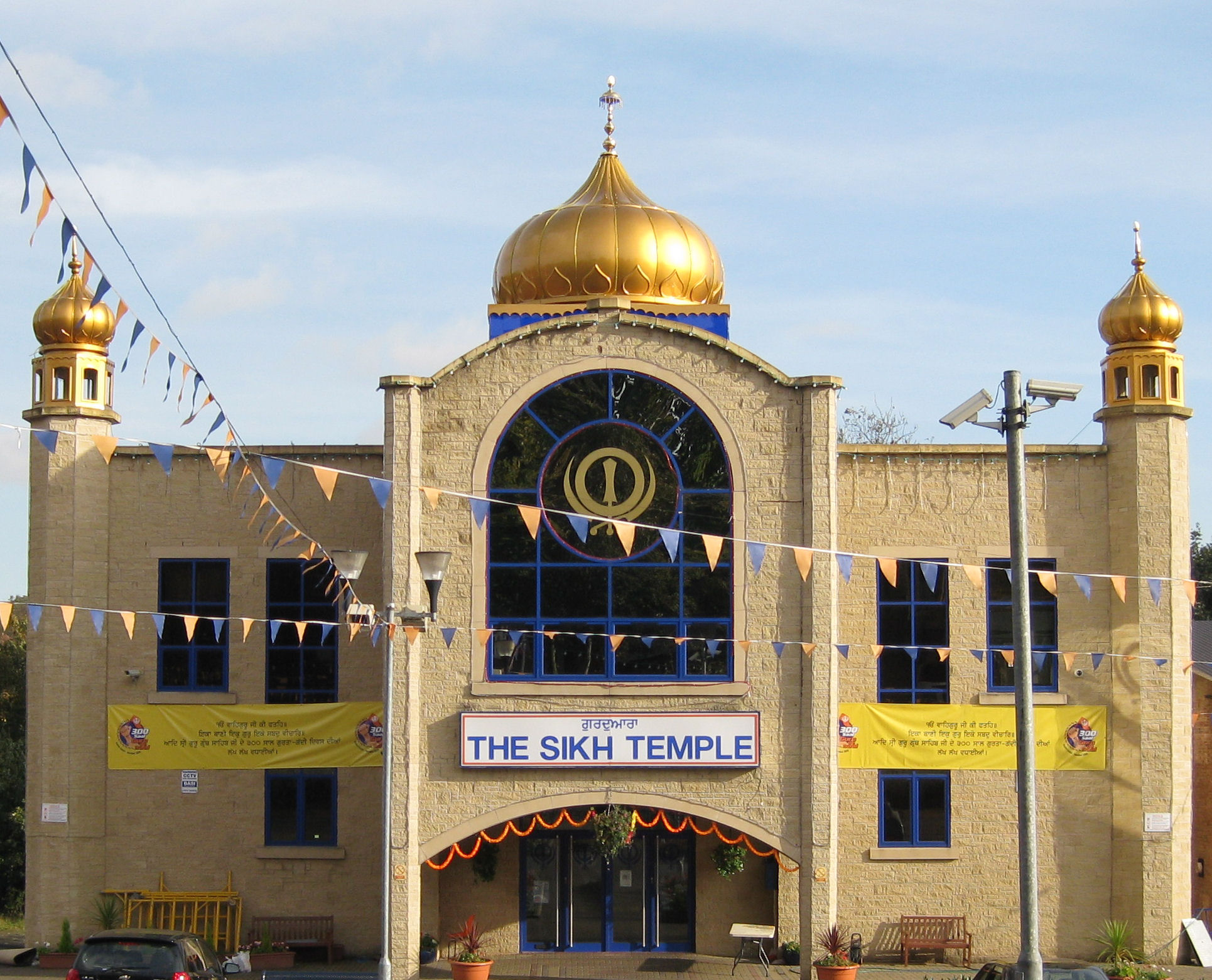 Sikh Temple, Chapeltown Road, Leeds, LS7 4HY